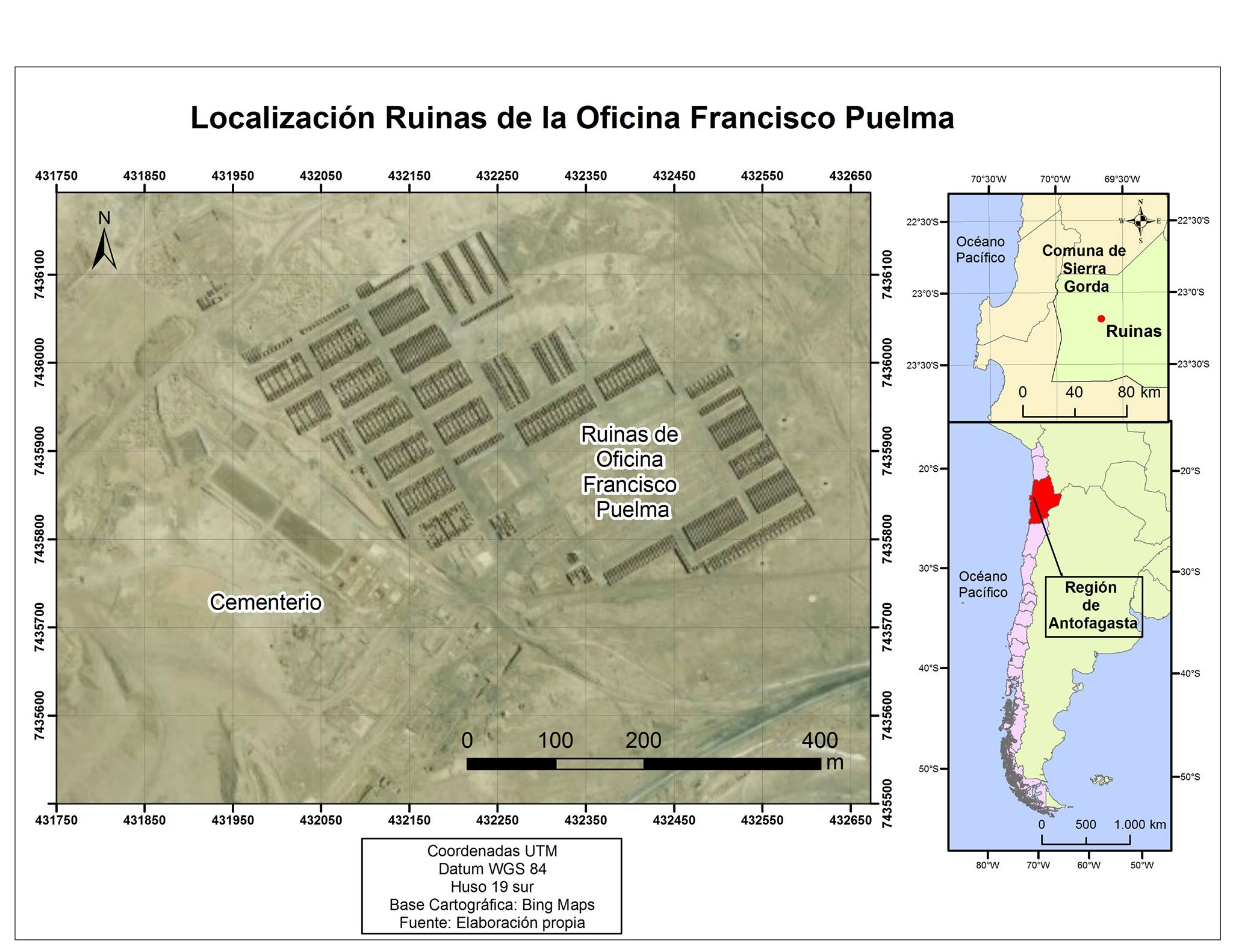 Location and office airphoto